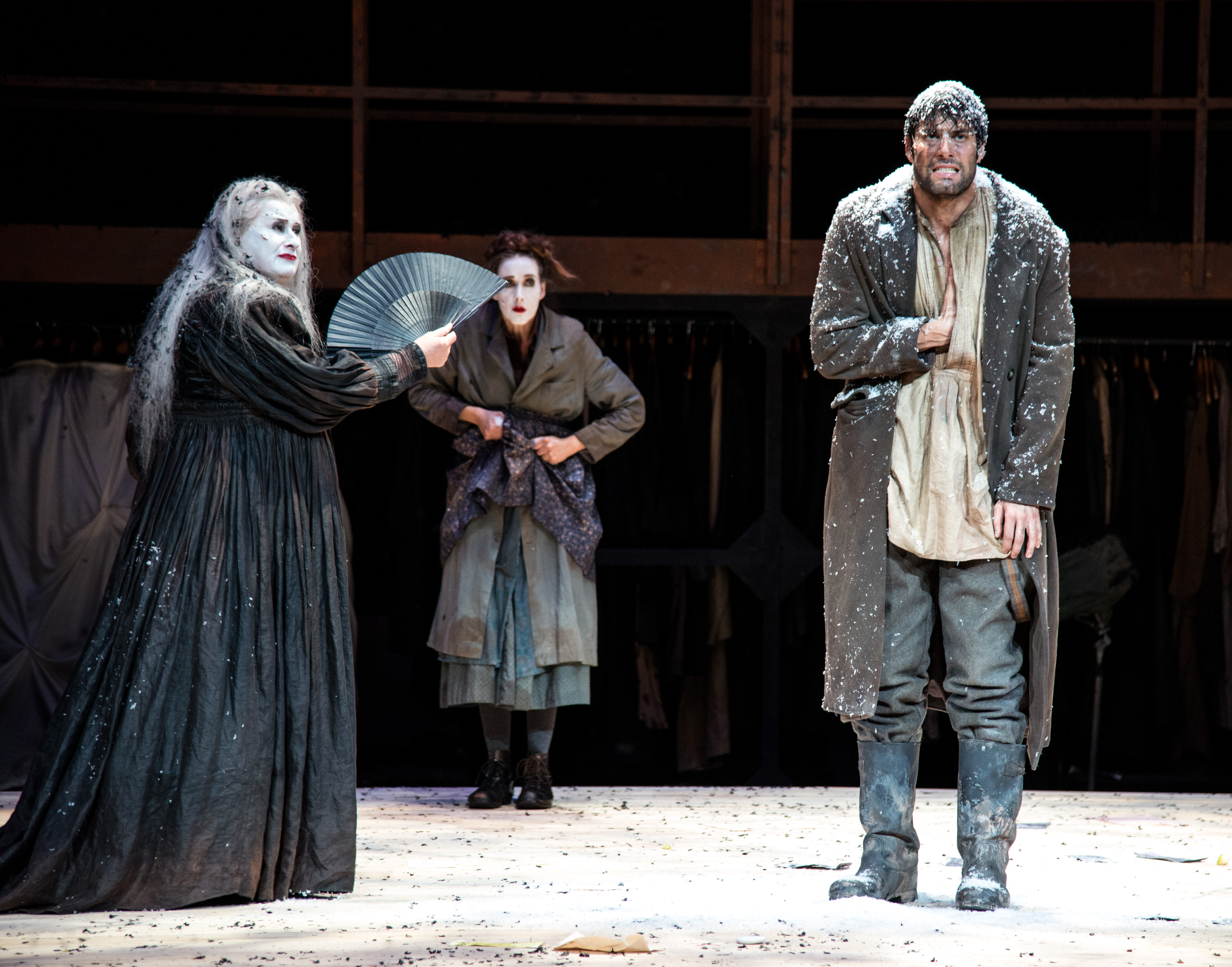 Don Juan kommt aus dem Krieg, Salzburger Festspiele 2014, from left: Traute Hoess, Sabine Haupt, Max Simonischek (direkted by Andreas Kriegenburg)